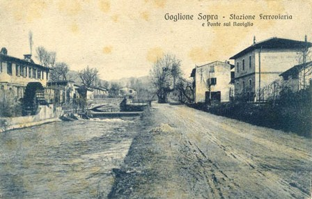 Cartolina di Goglione Sopra (oggi Prevalle) con la stazione ferroviaria e il Naviglio.